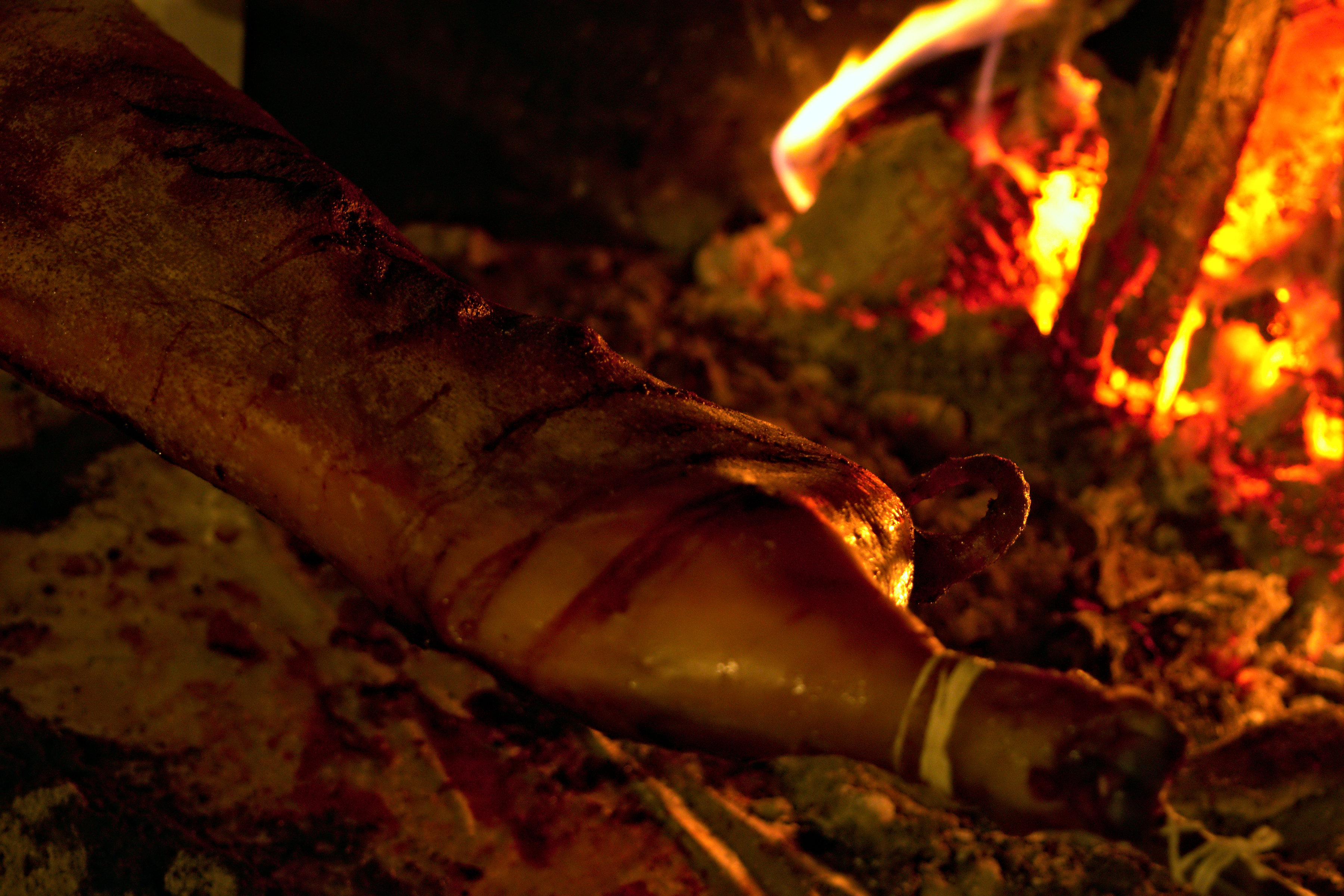 Roasting of Sardinian pork in Macomer.